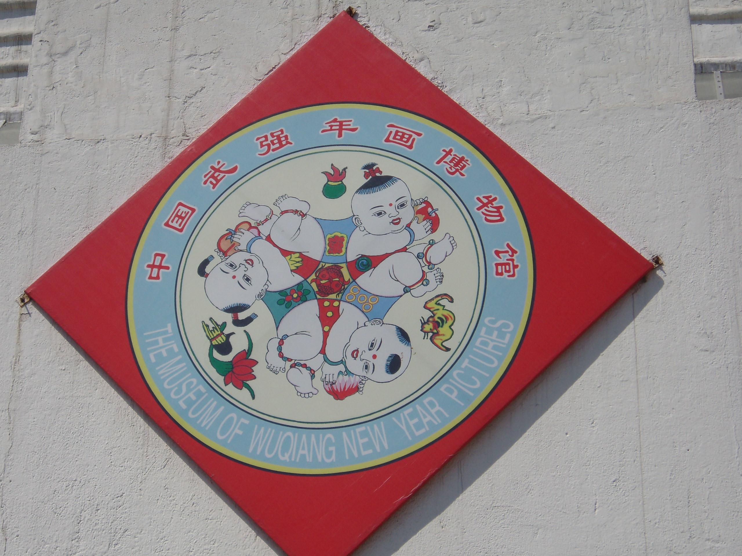 Museum of Wood engraving new-year painting in Wuqiang County,Hebei Province ,China.